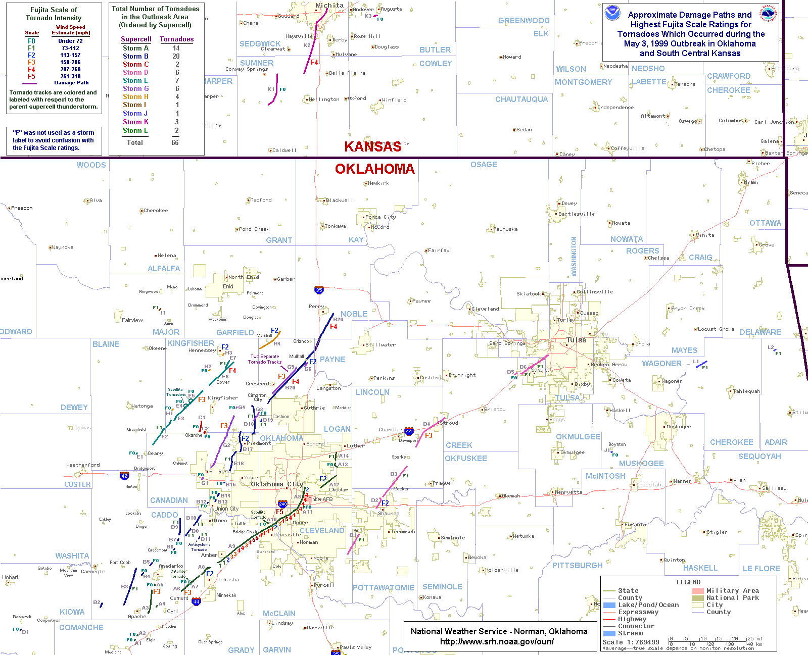 Map of all tornadoes in Oklahoma and Kansas and their tracks in the 1999 Oklahoma tornado outbreak